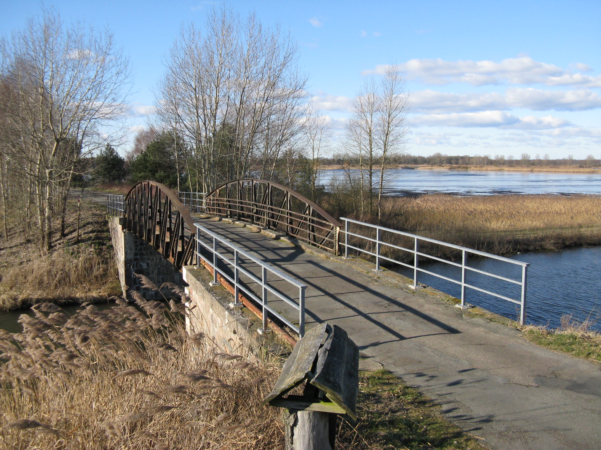 Bridge Dütschower Brücke, built 1920, over the Müritz-Elde-Wasserstraße in the Lewitz north of Neustadt-Glewe, Germany